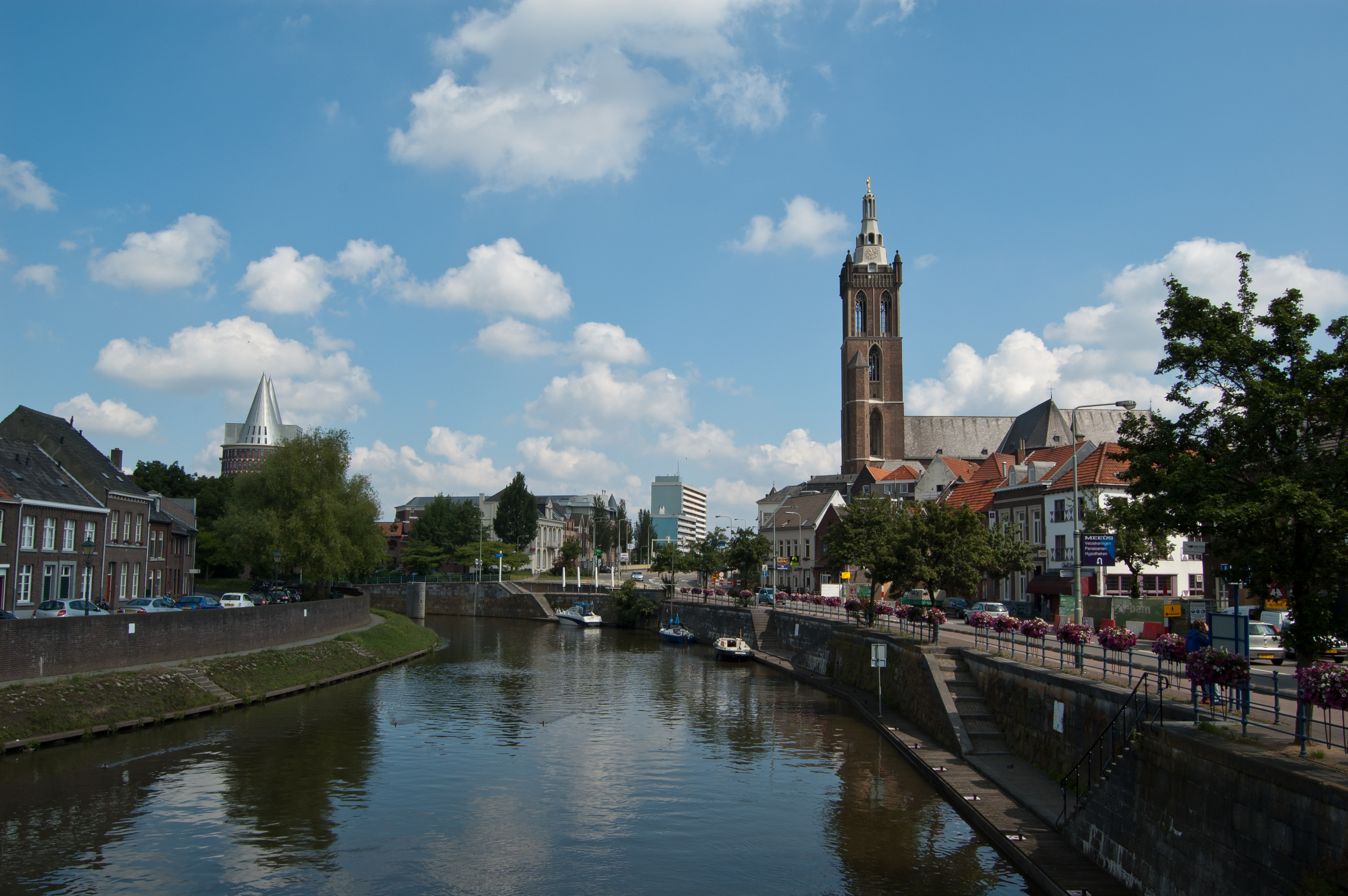 The river Roer (Rur in German) near its mouth into the River Maas and the Christoffelcathedral in Roermond, Netherlands